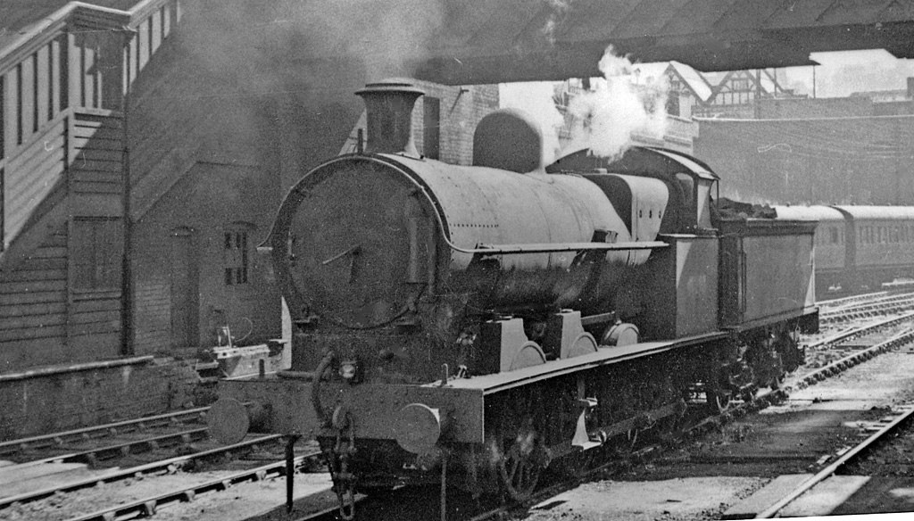 Dudley Station and an LNW 0-8-0. View southward, towards Dudley Tunnel, Stourbridge Junction, Kidderminster and Worcester, also Old Hill; joint Station of ex-Great Western (Oxford, Worcester & Wolverhampton Section) and of ex-London & North Western (South Staffordshire) line from Lichfield and Walsall. Back in the 1950s the lines through Dudley were busy, especially with freight and this ex-LNW 0-8-0 (No. 49202) was engaged with the latter.